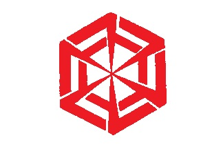 Flag of Suzaka Nagano